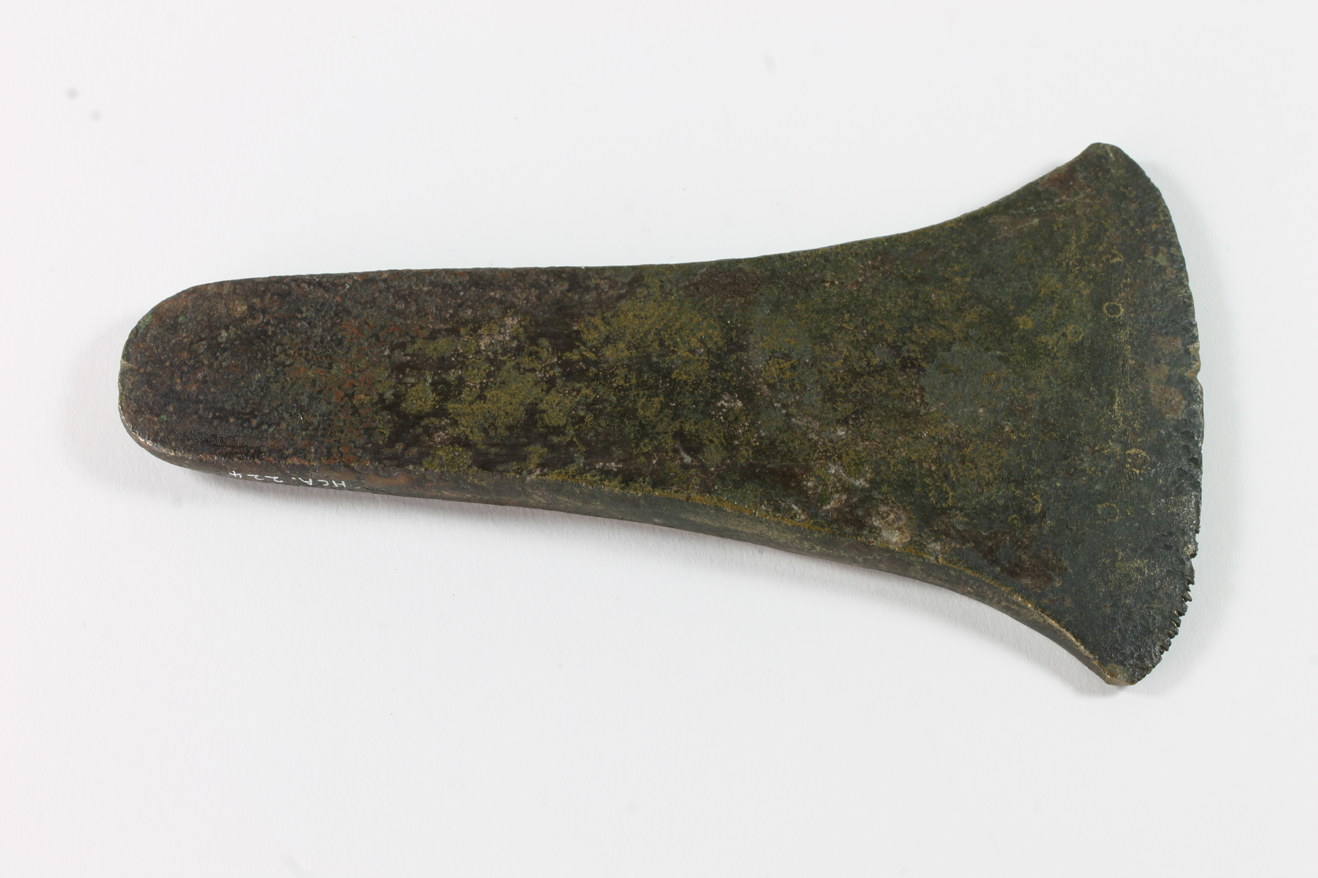 Copper axes cast in one-piece moulds were most common metal artefacts in the earliest stages of metal use. These very eraly metal axes are simple flat shapes, which were hafted, in the same manner as stone axes, by slotting the axe head into a perforated wooden handle. Bronze axes followed, and throughout the Bronze Age axe types were developed that required ever more sophisticated metalworking skills and increatingly effective hafting techniques. HCA 228 has very slight flanges along its edges, while those on HCA 237 are more pronounced with a transverse stop-ridge between the flanges. These developments show that axes were now hafted in the fork end of an angled wooden shaft rather than via the earlier perforated handles. Further developments is seen with the blending together of the palstave-type axe and finally the creation of the socketed variety. The more developed axes would have been cast using two-piece moulds, or clay moulds and cores for hollowing.